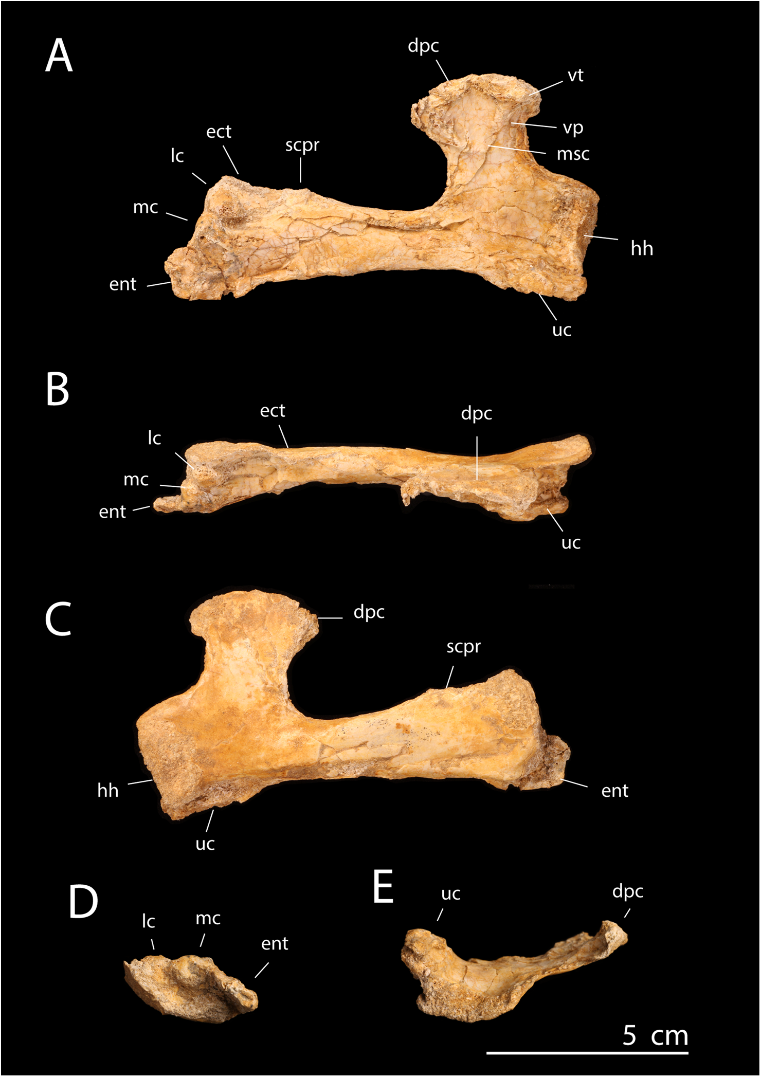 Alcione FSAC-OB 5, right humerus. In (A), ventral view, (B) anterior view, (C) dorsal view; (D) distal view, and (E) proximal view. Abbreviations: dpc, deltopectoral crest; ect, ectepicondyle; ent, entepicondyle; hh, humeral head; lc, lateral condyle; mc, medial condyle; msc, muscle scar; uc, ulnar crest, vp, ventral ridge; vt, ventral tubercle.